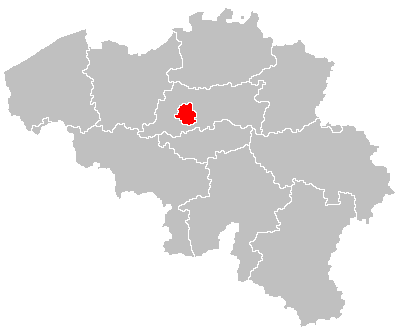 Brussels in Belgium